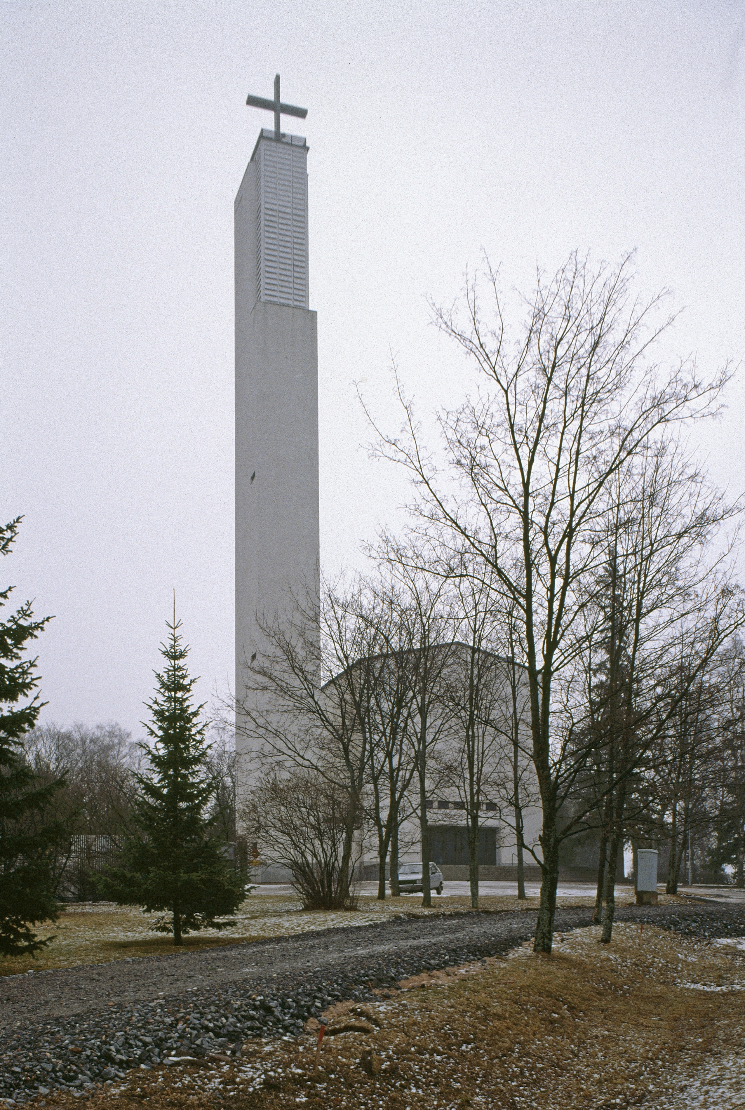 Nakkila church, Finland. Architect Erkki Huttunen 1937.